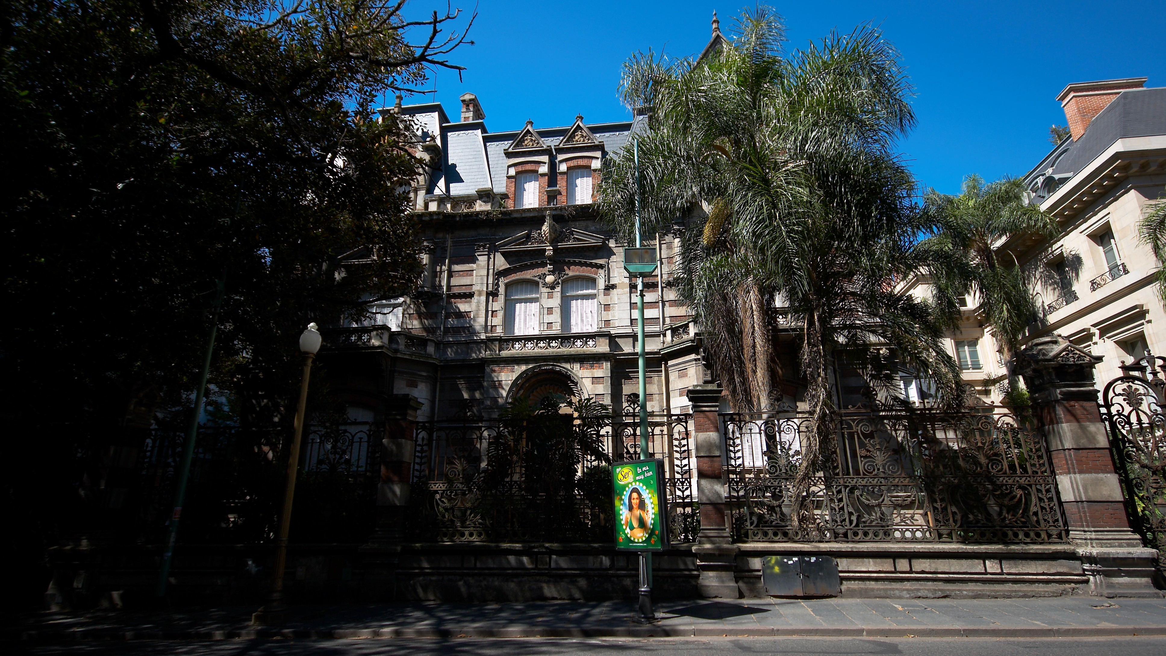 Maguire Residence, on 1693 Alvear Avenue, Buenos Aires, Argentina. Built as the Hume Residence by Carlos Ryder in 1891, it was later known as the Duhau residence.